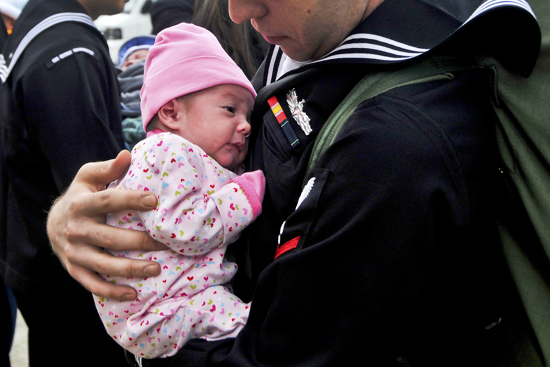 U.S. Navy Petty Officer 3rd Class Matthew Sandlin holds his newborn daughter for the first time after being underway for six months aboard the aircraft carrier USS George Washington (CVN 73) in the Pacific Ocean at Yokosuka, Japan, on Nov. 1, 2010. Sandlin is assigned as a machinist's mate.